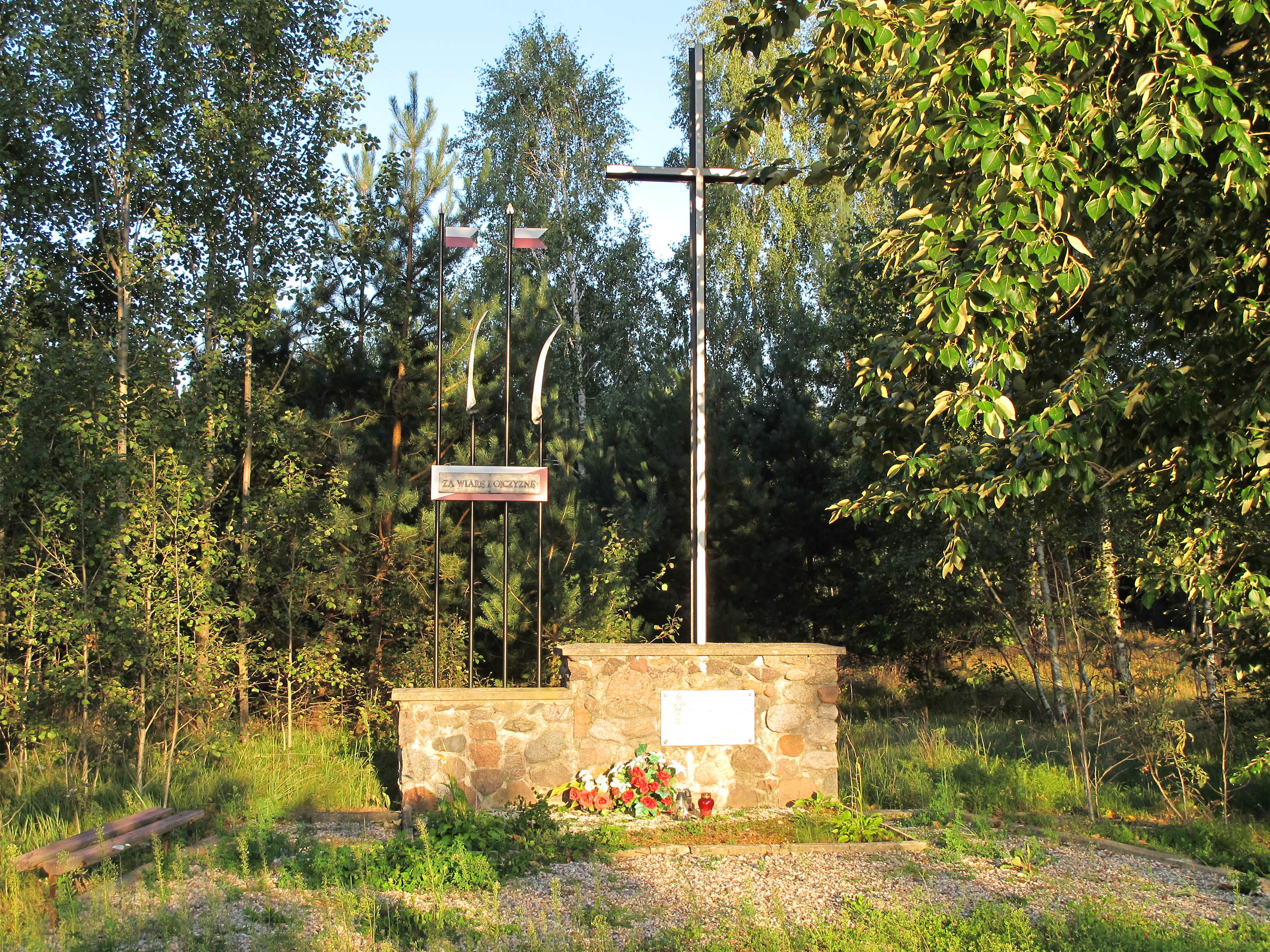 January Uprising insurgents grave (1996) near Jacewicze village, by a road between villages Strabla and Mulawicze, gmina Wyszki, podlaskie, Poland